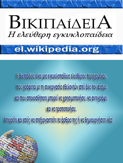 Poster for Greek Wikipedia